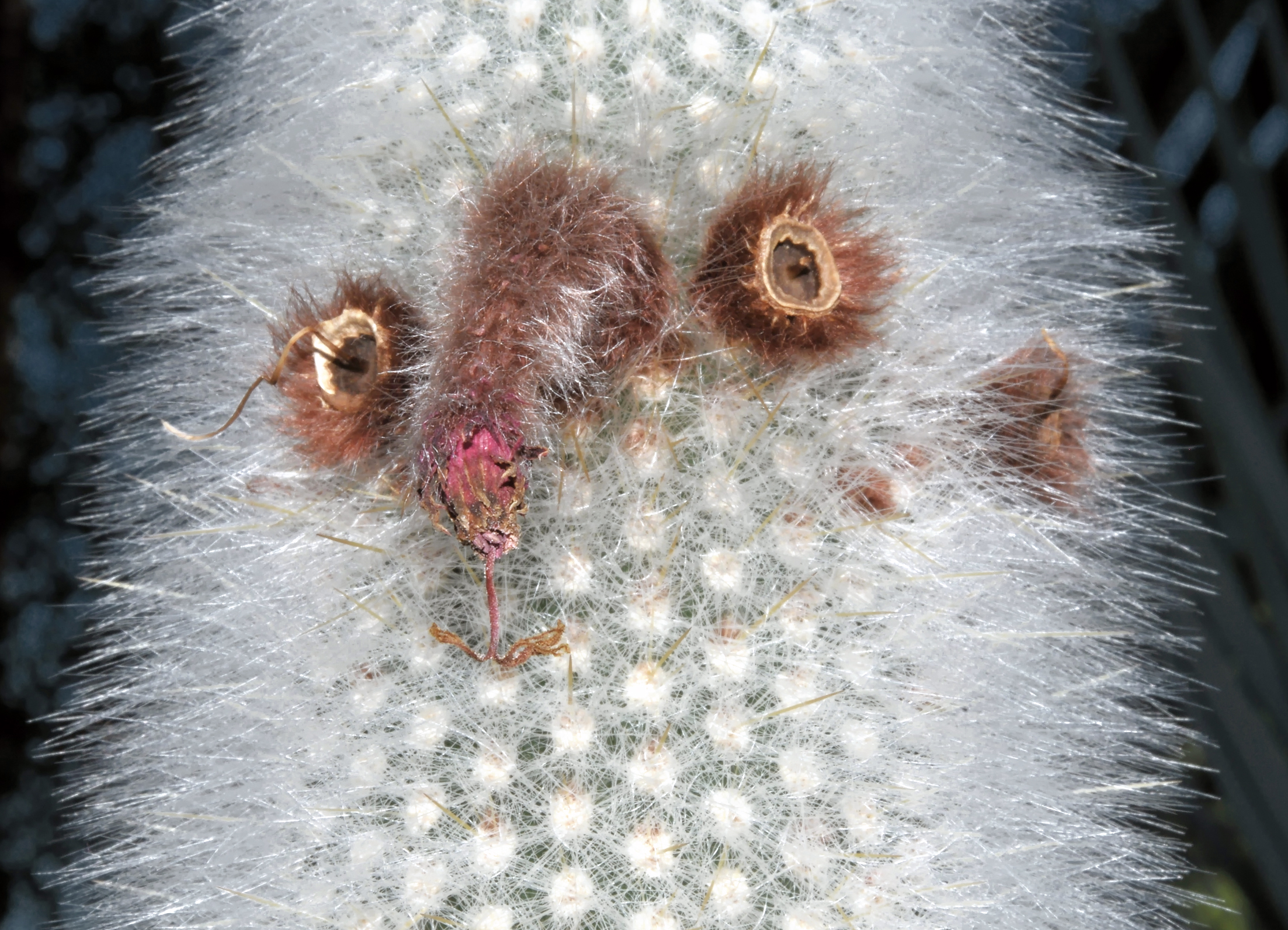 (silver torch cactus (Cleistocactus strausii) in the Berggarten in Hanover, Germany.